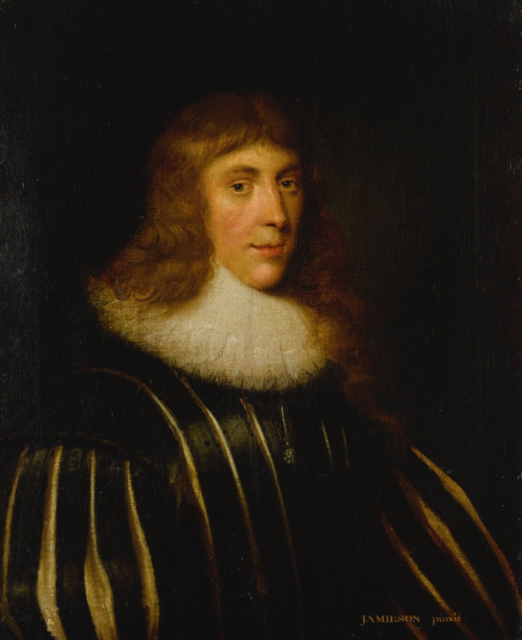 Depicted person: Alexander Forbes, 1st Lord Forbes of Pitsligo